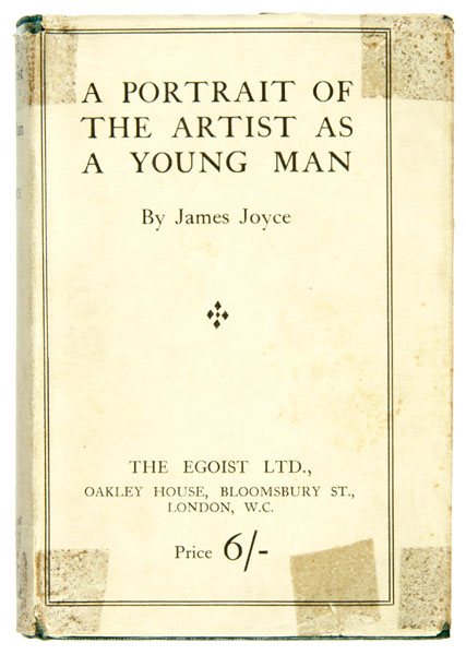 Cover of the first UK book edition of James Joyce's A Portrait of the Artist as a Young Man.